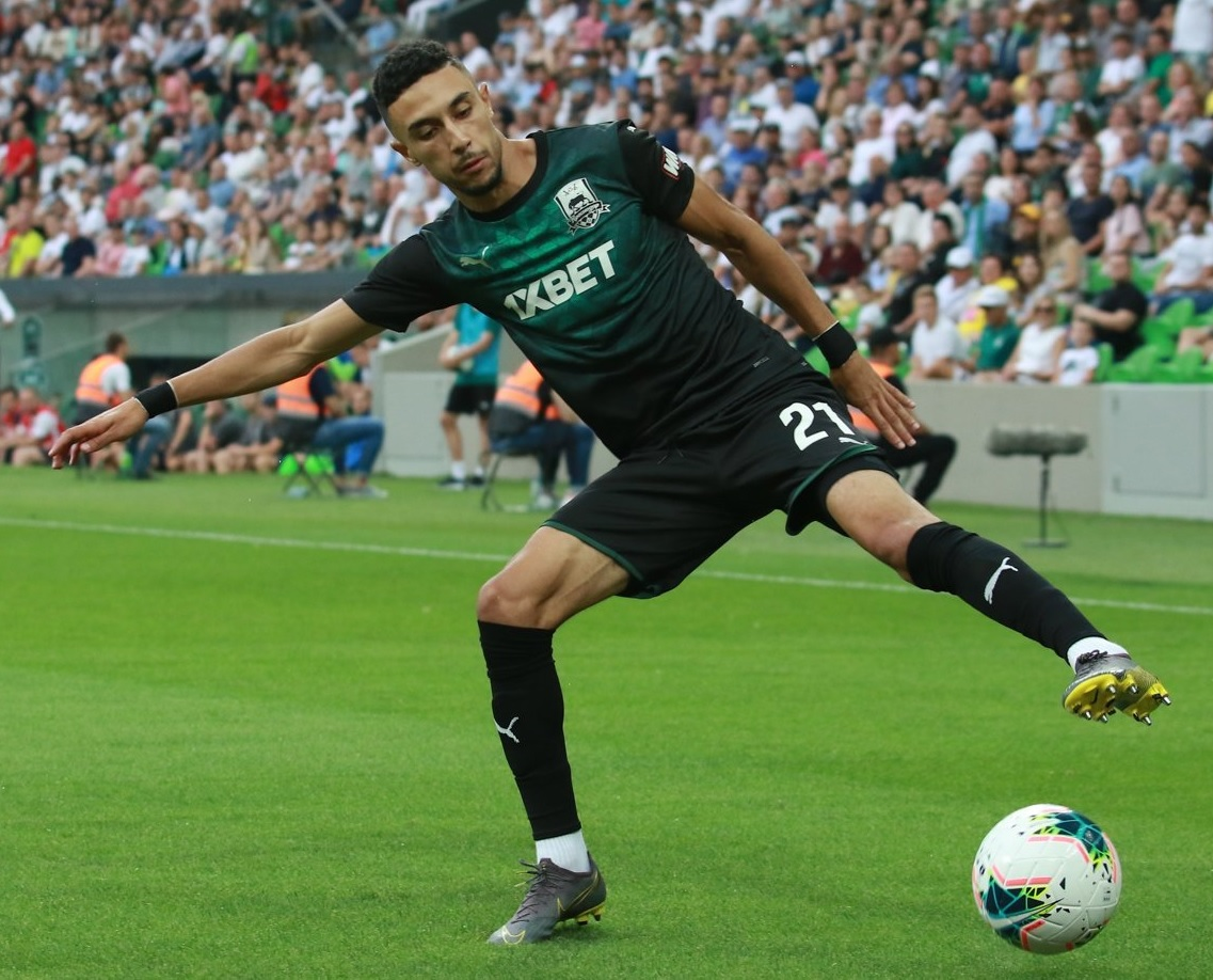 Younes Namli with FC Krasnodar in a game against PFC Sochi.